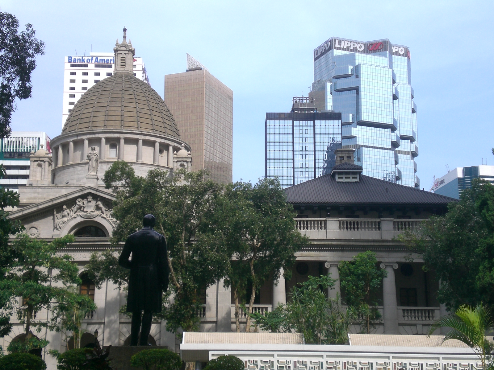 中環香港立法會大樓外觀zh:塑像